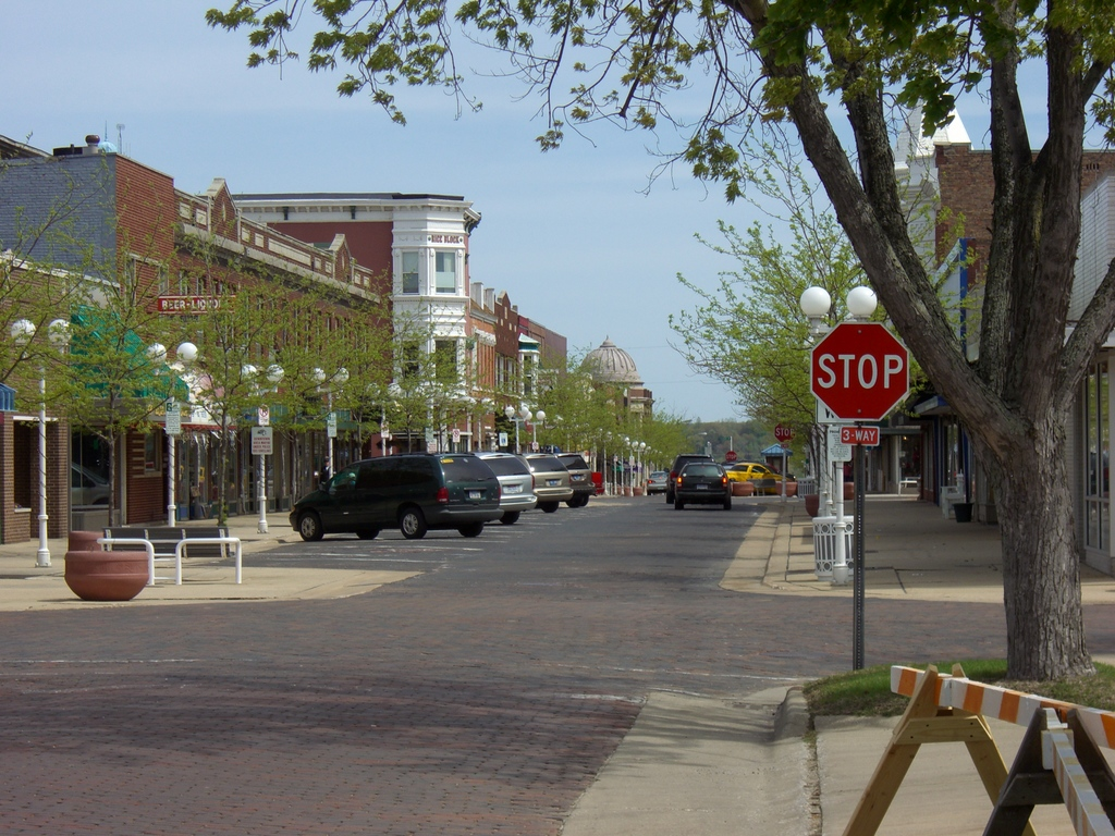 Downtown St. Joseph, MI on a Spring Day in May 2007. Looking down State St.